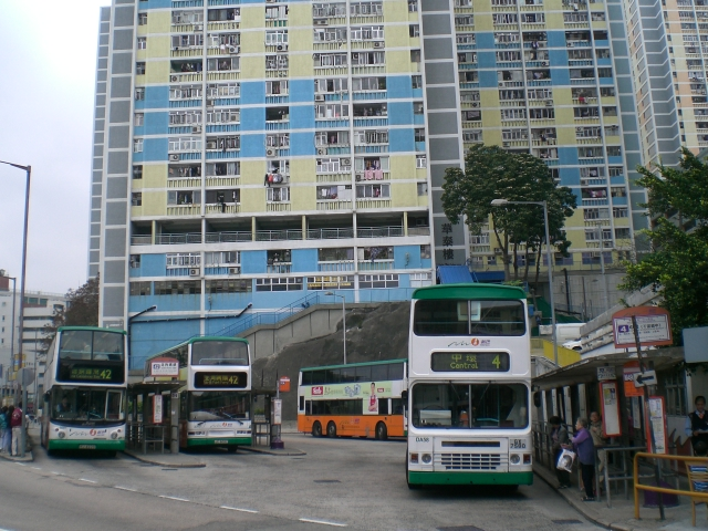 Wah Fu Estate (華富邨) is a public housing estate located by the Kellett Bay, Southern District, Hong Kong. It was built on a new town concept in 1971 and was renovated in around 2003. (Photo created by me.)